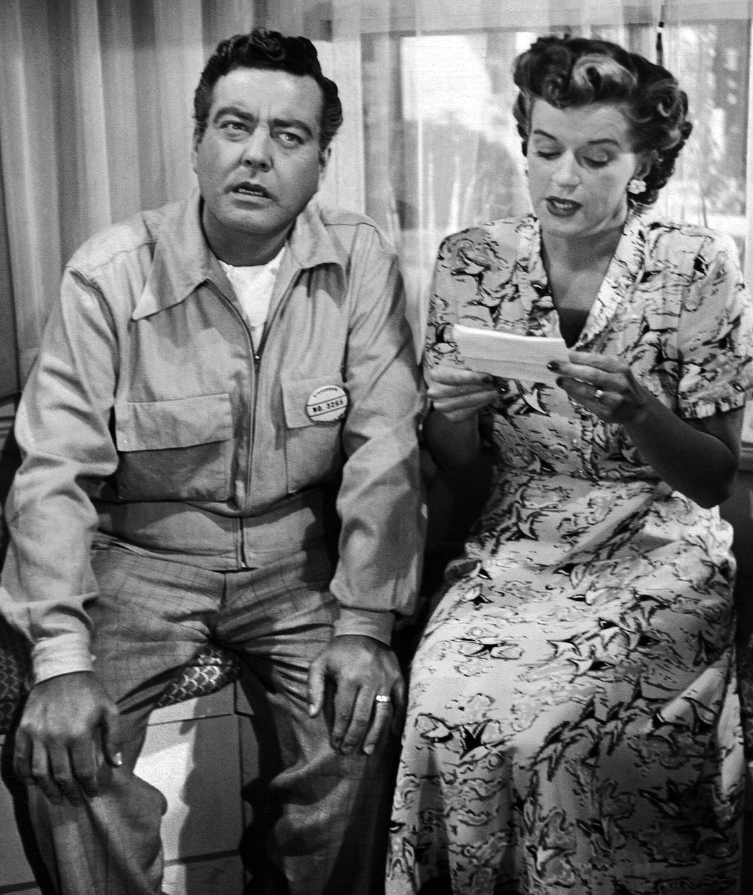 Photo of Jackie Gleason as Chester A. Riley and Rosemary DeCamp as Peg Riley from the television program The Life of Riley. While William Bendix played the role on radio, in films and in a later television version of the show, when the television program began, he was not able to accept the role due to other contractual obligations. Gleason had the role of Riley for only one season-from 1949 to 1950. In this photo, Peg Riley is going over a list of jobs she expects Riley to get done while she's out.